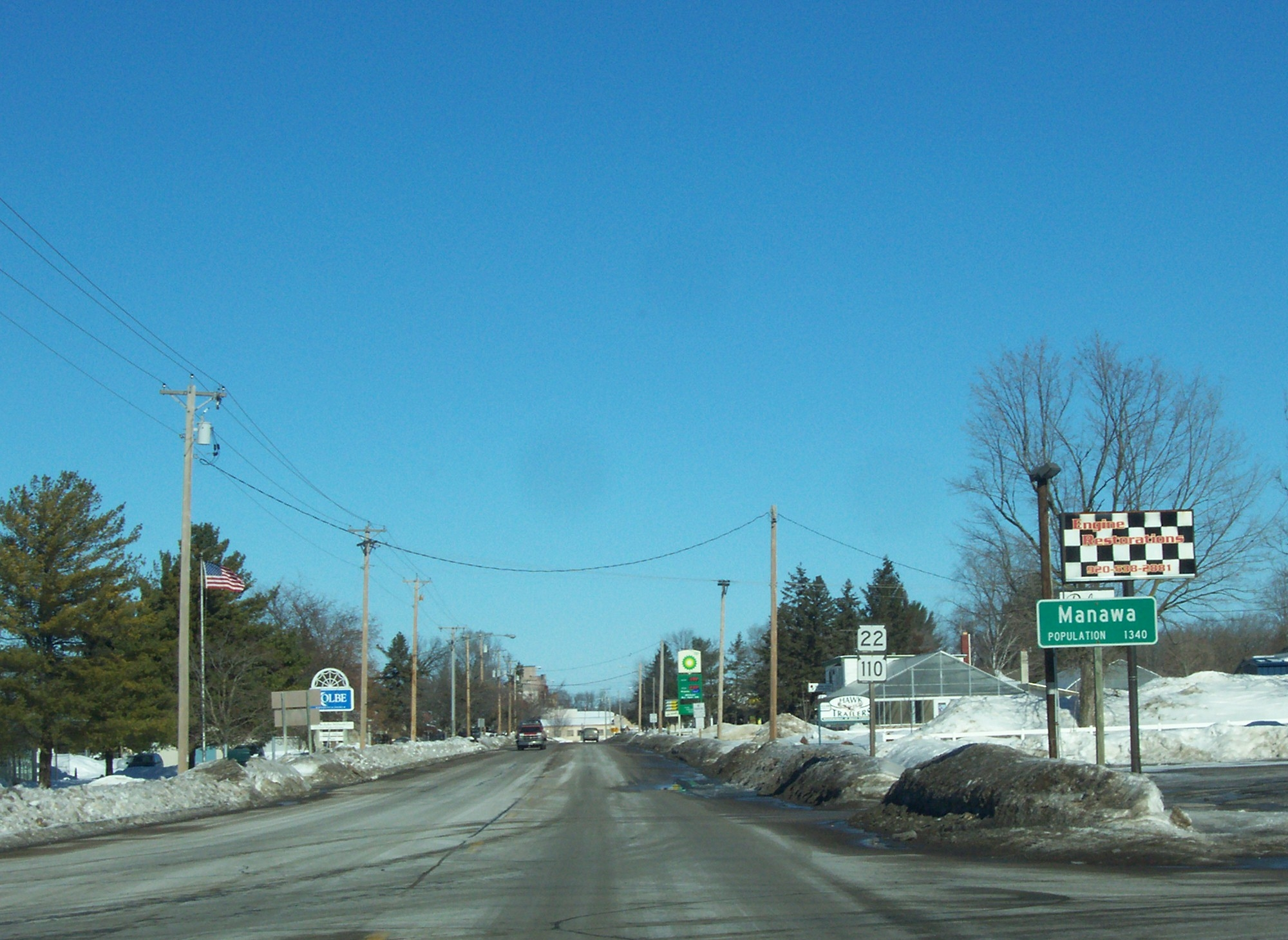 Looking north at the welcome sign for Manawa, Wisconsin on Wisconsin Highway 22 and Wisconsin Highway 110